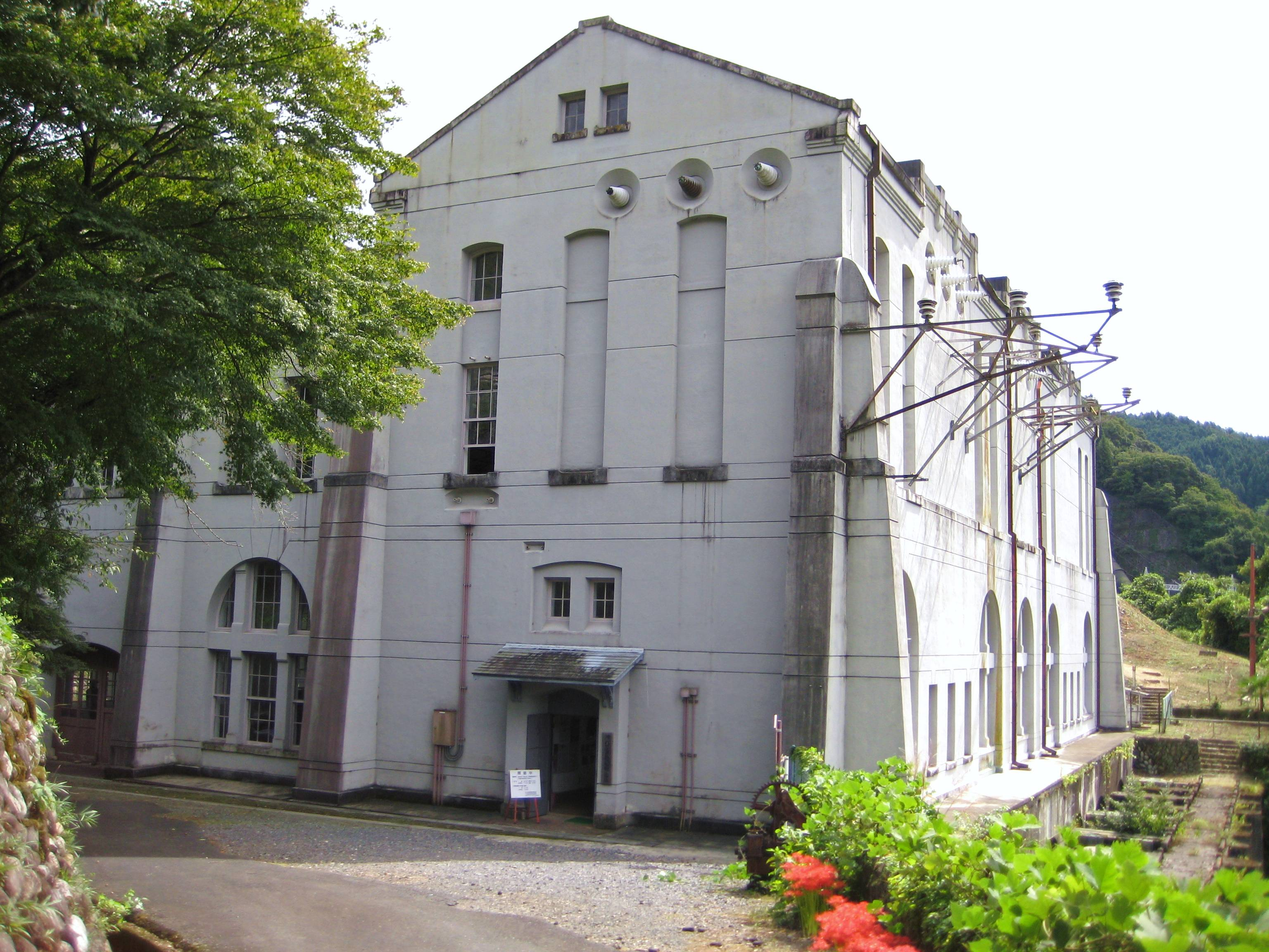 Yaotsu Old Power Plant Museum.